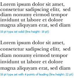 Text set solid vs. text set with added leading (vertical spacing).